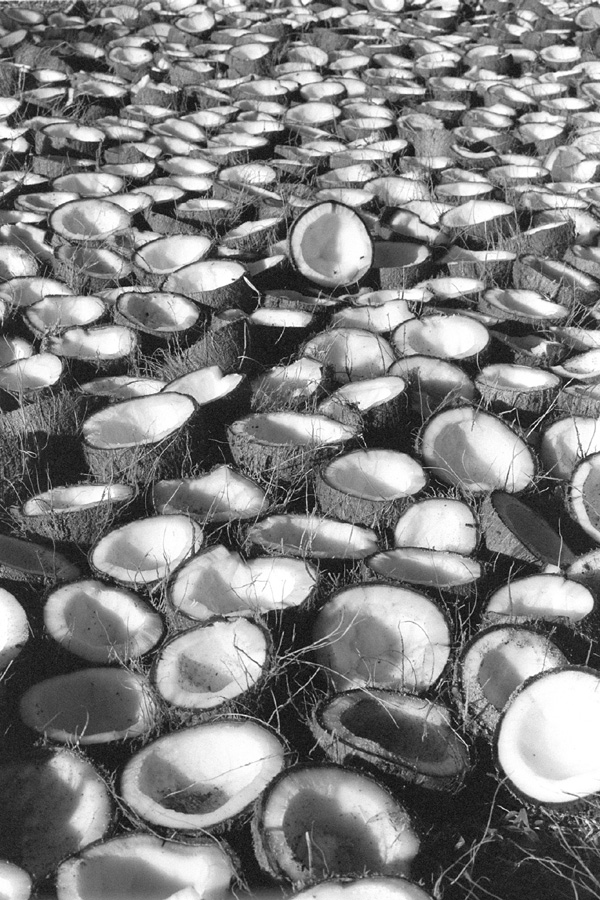 Harvested coconuts drying in the sun